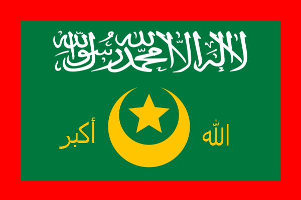 Flag of Ahlu Sunnah Waljamaca